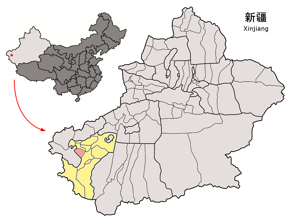 Location of Yengisar County (pink) and Kashgar Prefecture (yellow) within Xinjiang autonomous region of China Map drawn in september 2007 using various sources, mainly : Xinjiang Uygur autonomous region administrative regions GIS data: 1:1M, County level, 1990 Xinjiang Counties map from